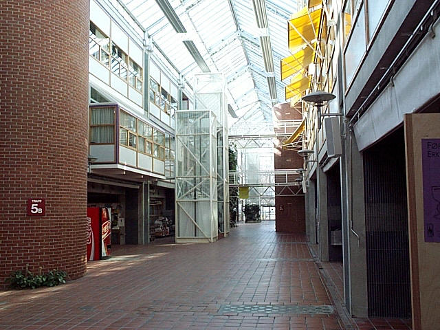 Internal view of the Dragvoll campus at the Norwegian University of Science and Technology.